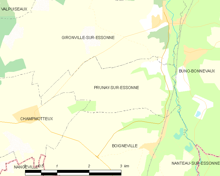 Map of French municipality Prunay-sur-Essonne